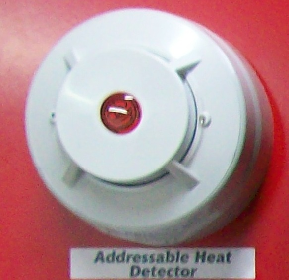 Heat detector COFEM that is certificated with EN 57-5 (Heat Detector)